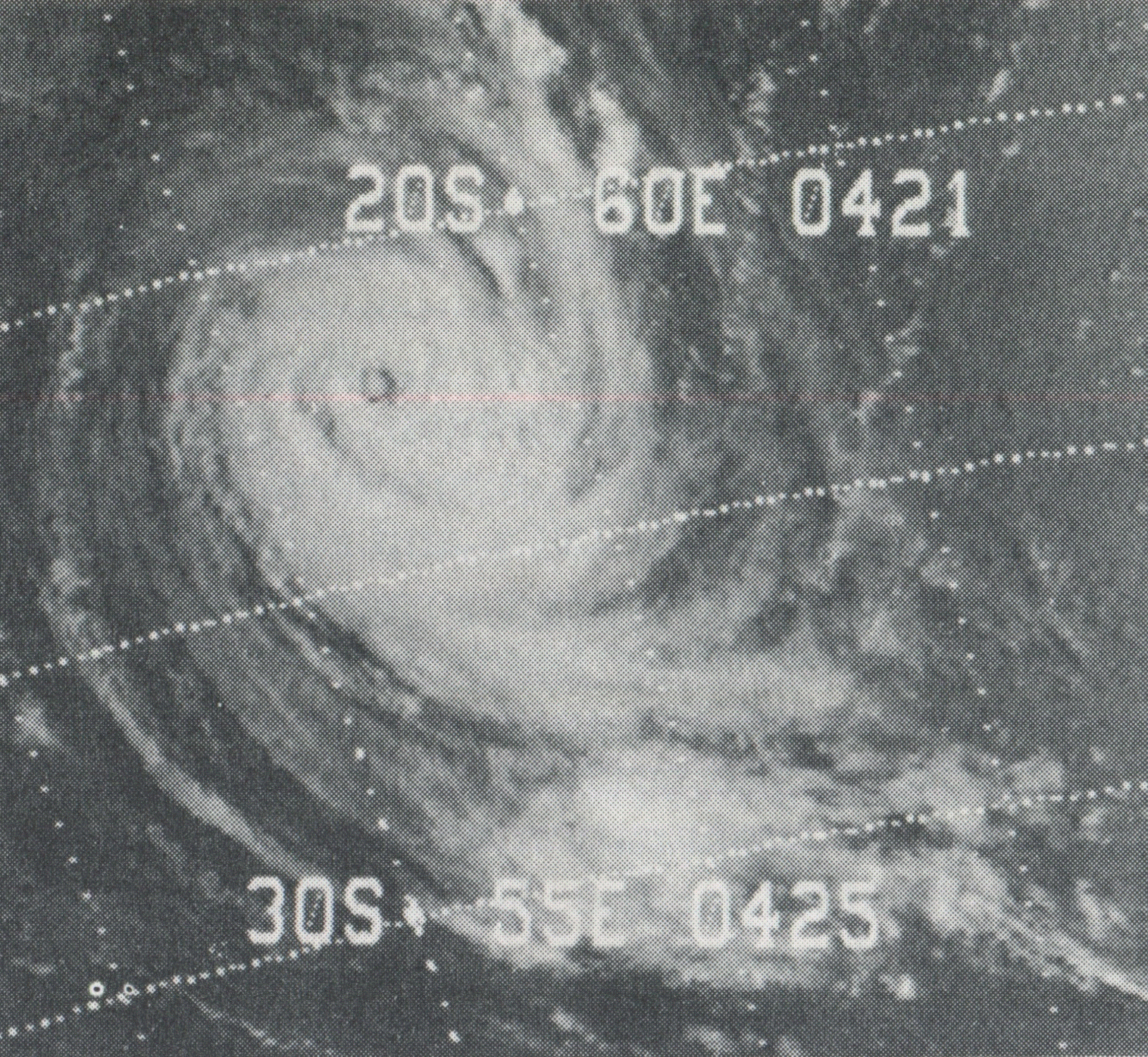 This weather satellite image of a hurricane passing near Mauritius and Reunion, possibly named Gervaise, was taken on February 7, 1975